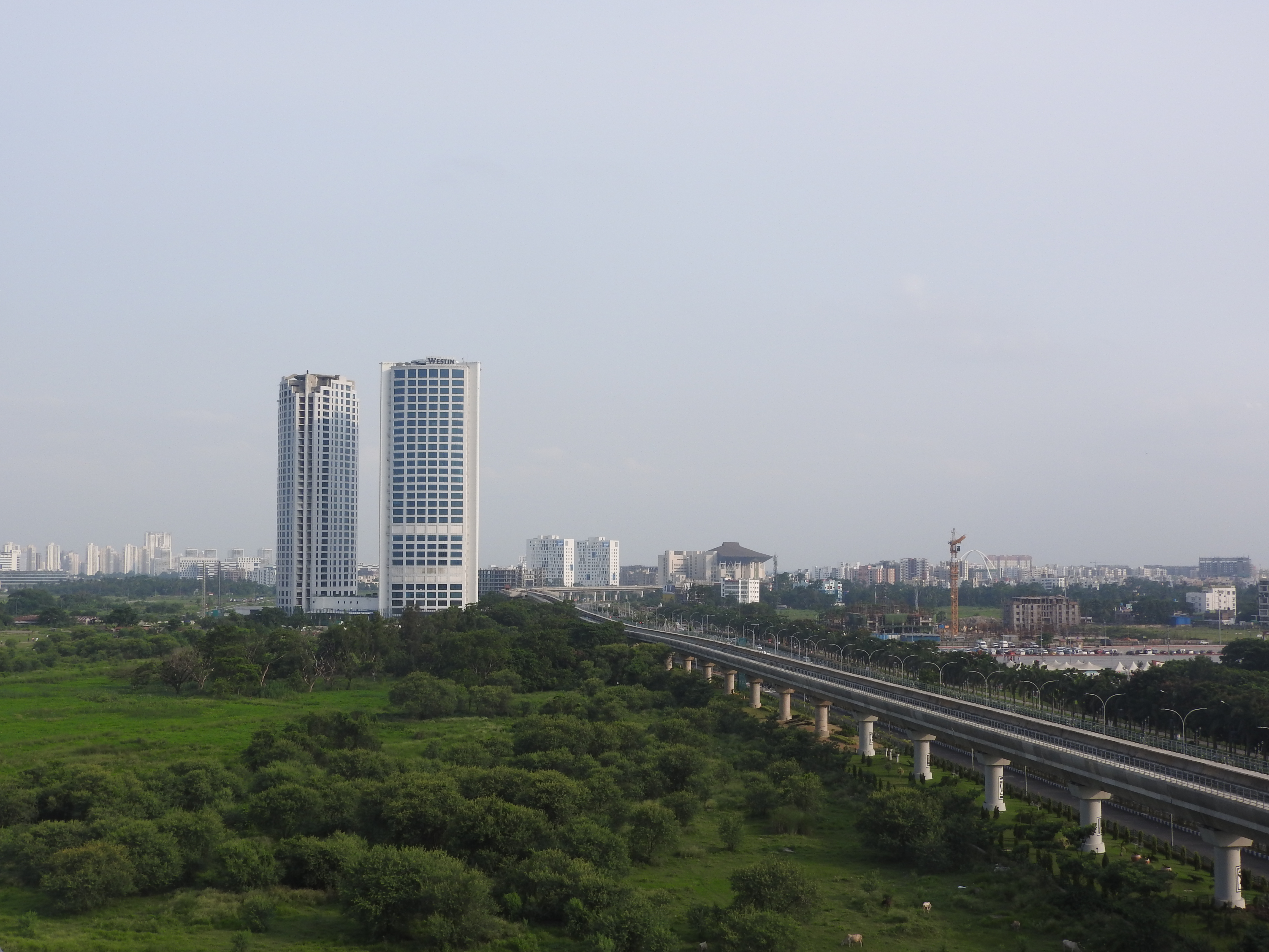 Near Eco park area,new town smart city,kolkata